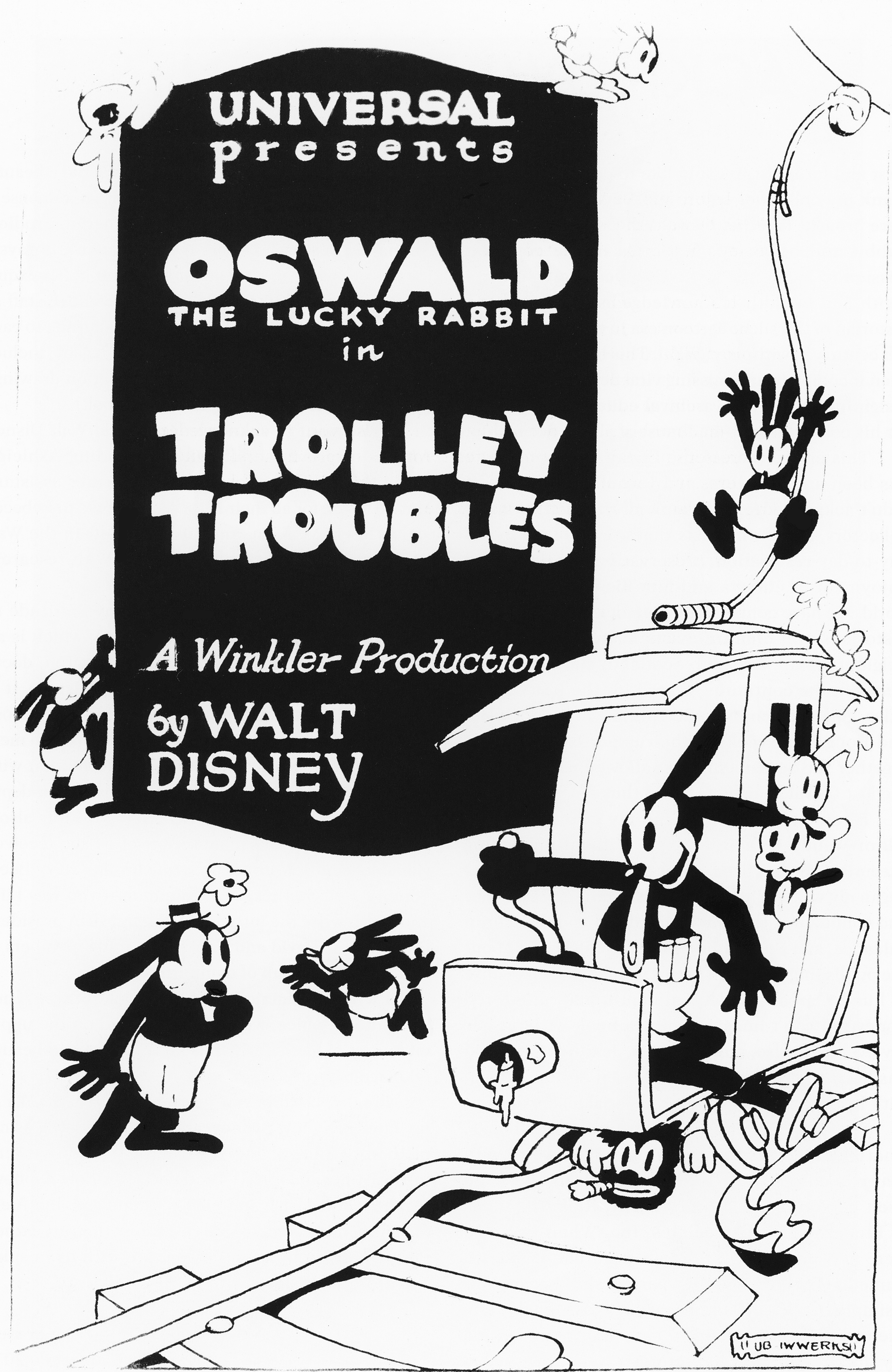 Poster for Oswald the Lucky Rabbiy cartoon "Trolley Troubles"